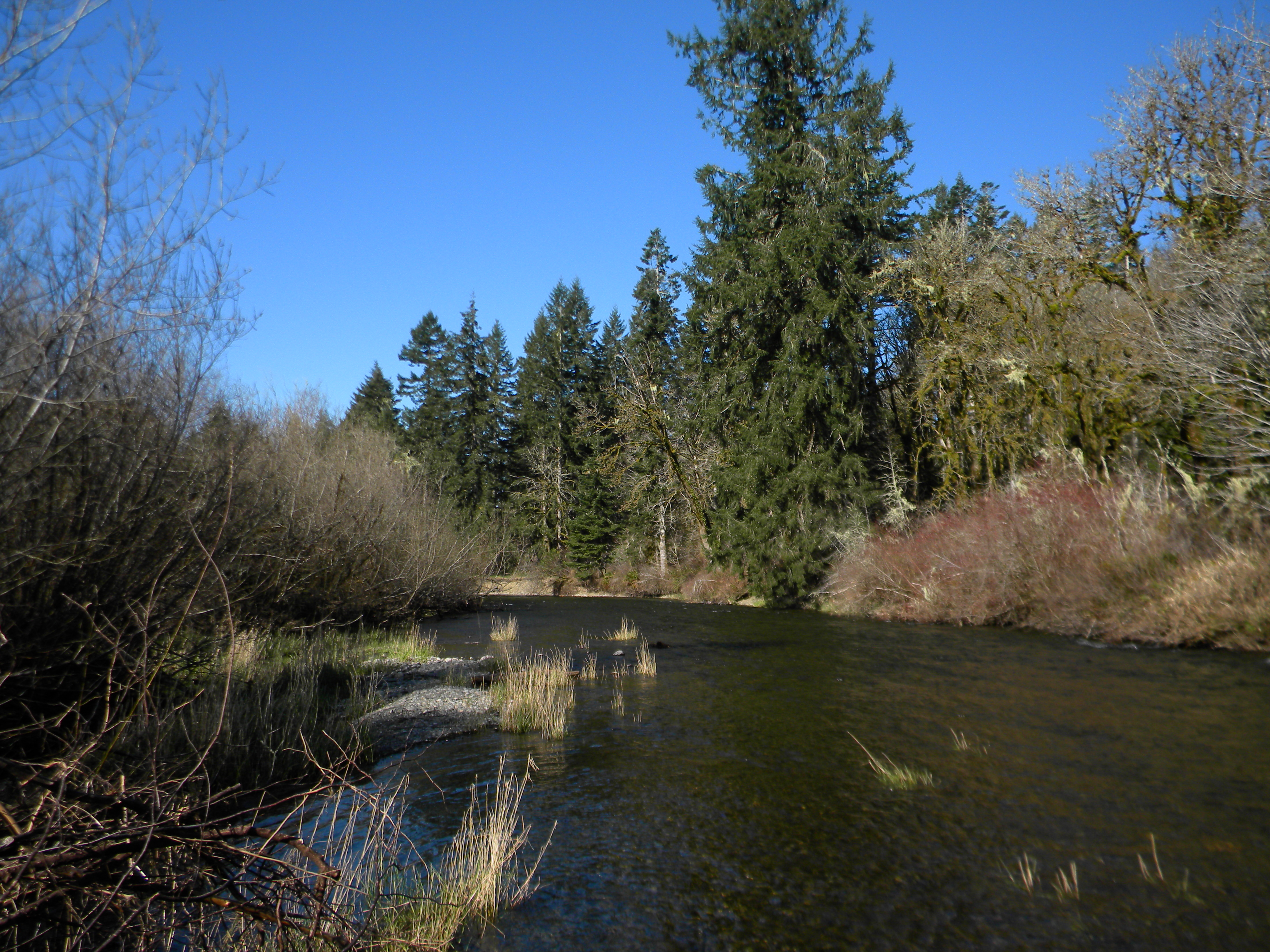 Schafer State Park Entire State Park property is listed on the Register.